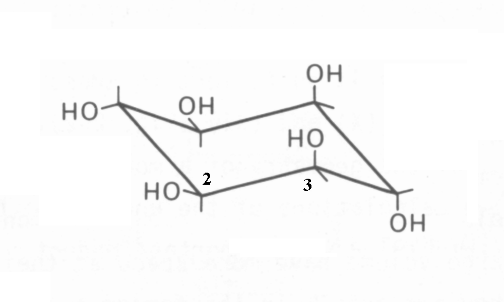 A conformal representation of muco-inositol using an arbitrary numbering system compatible with the discussion on muco-inositol page